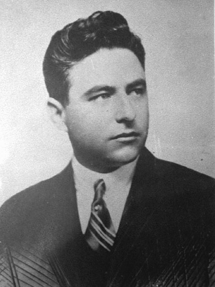 Portrait of Konstantin Muraviev, former Chairmen of the Council of Ministers of Bulgaria.